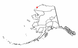 Adapted from Wikipedia's AK borough maps by Seth Ilys.